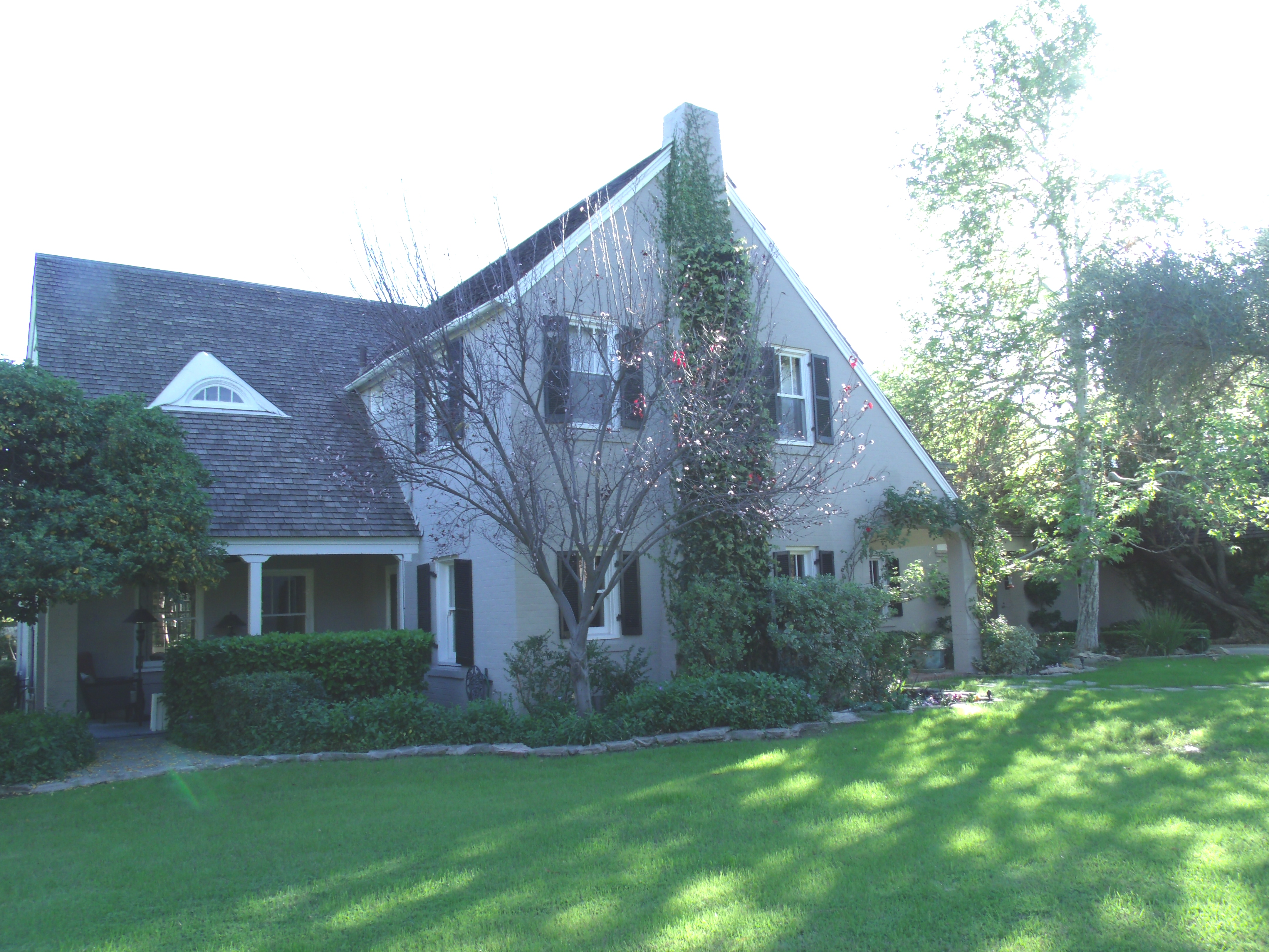 The historic Lewis Williams Douglas House was built 1923 and located at 815 E. Orangewood Ave. in Phoenix, Az. The house is historically significant for its association with Douglas, a nationally prominent Arizona politician and United States Congressman whose public career extended from 1922 through the years following World War II, During this period, Douglas served his home state and the nation in a number of elected and appointed positions of leadership. The house is listed in the National Register of Historic Places in 1985 ref. 85000188.